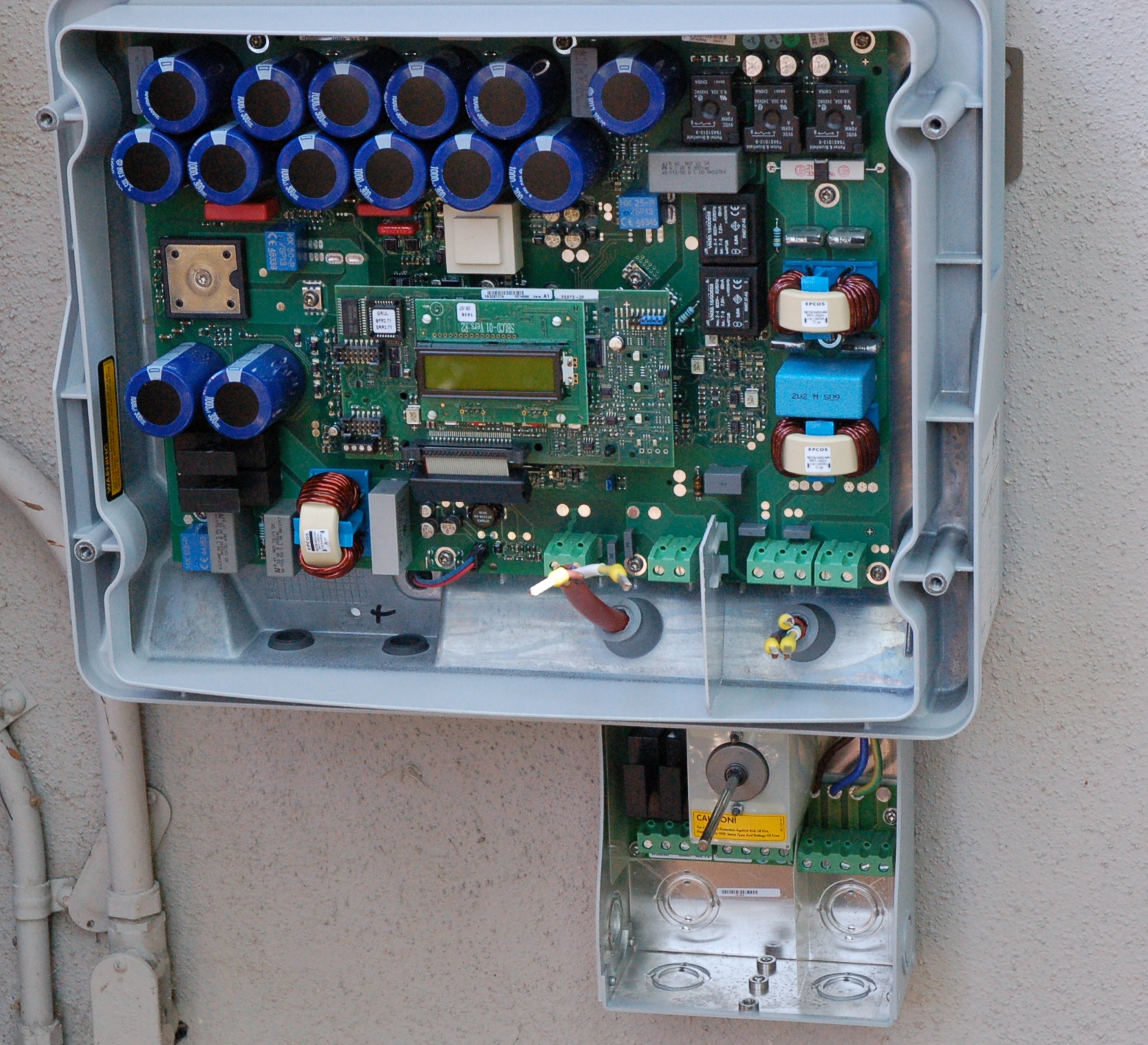 The guts of the Sunny Boy 3000 inverter.